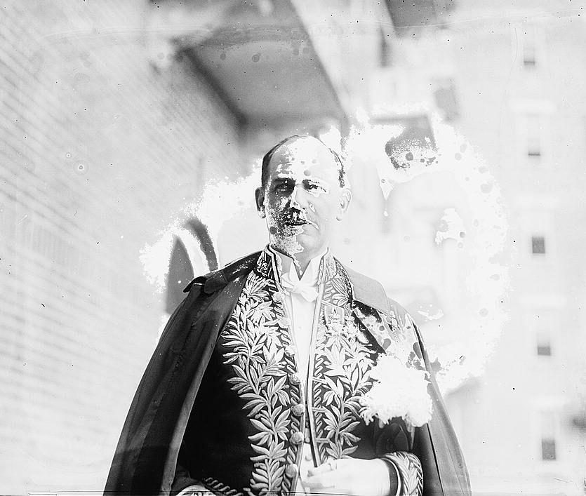 Ambassador Axel Wallenberg of Sweden (1874–1963).